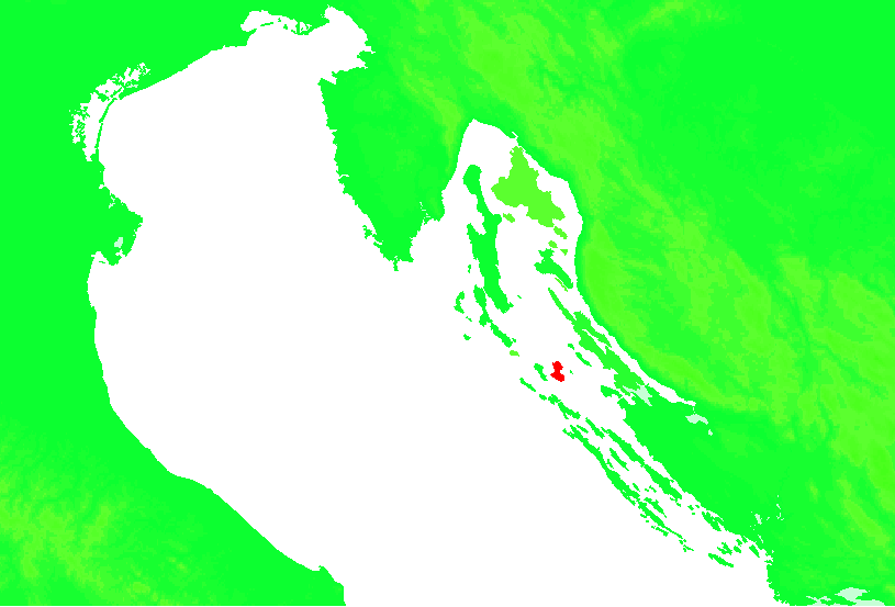 Island of Croatia Croatia - Olib.PNG